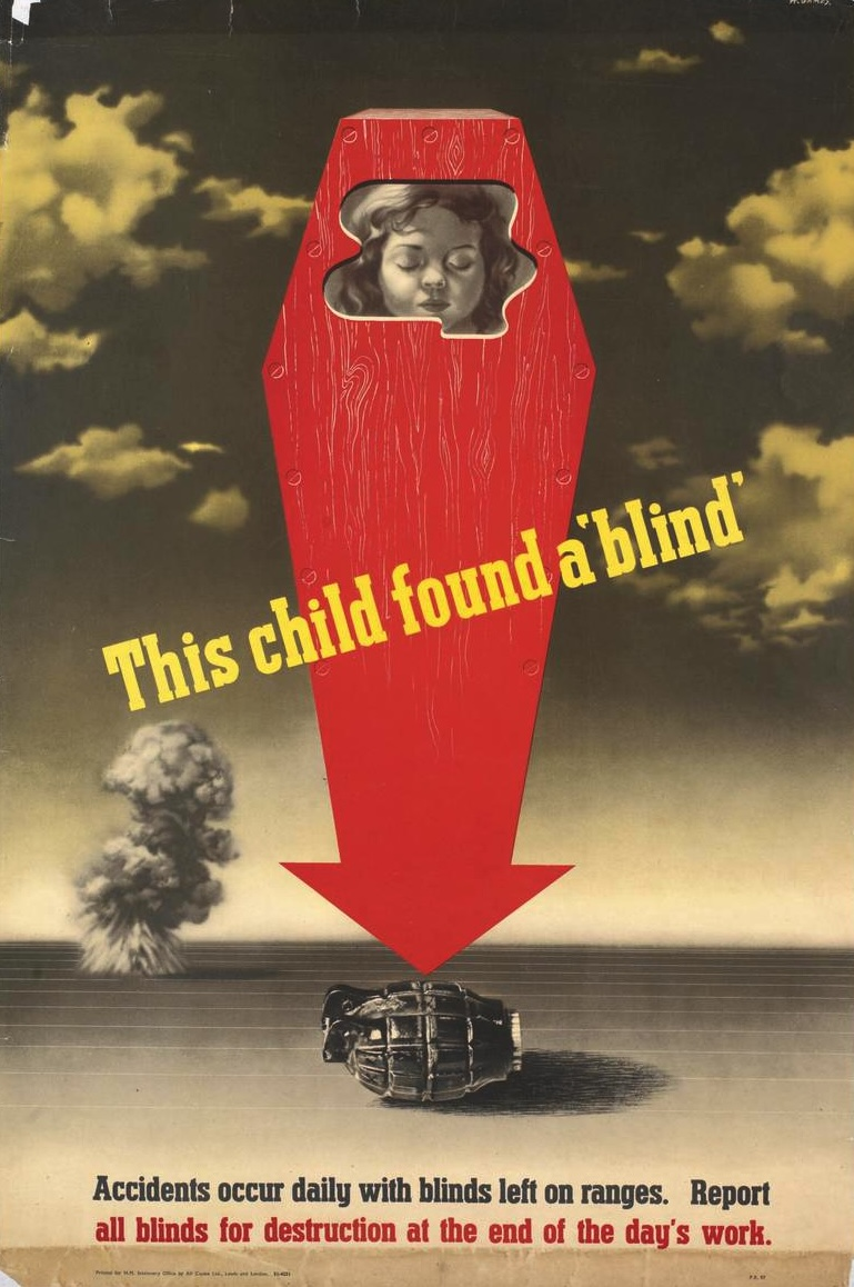 This Child Found a 'blind whole: the image occupies the majority. The title is integrated and positioned in the upper half, in yellow. The text is separate and located in the lower fifth, in black and in red, set against a white background. image: a depiction of a red coffin, standing upright, with a hole cut in its lid revealing the face of a young girl. The footpart of the coffin forms an arrow pointing downwards at a hand grenade. An explosion occurs in the background left. text: A. GAMES. This child found a 'blind' Accidents occur daily with blinds left on ranges. Report all blinds for destruction at the end of the day's work. Printed for H.M. Stationery Office by Alf Cooke Ltd., Leeds and London. 51-4251 P.R. 97